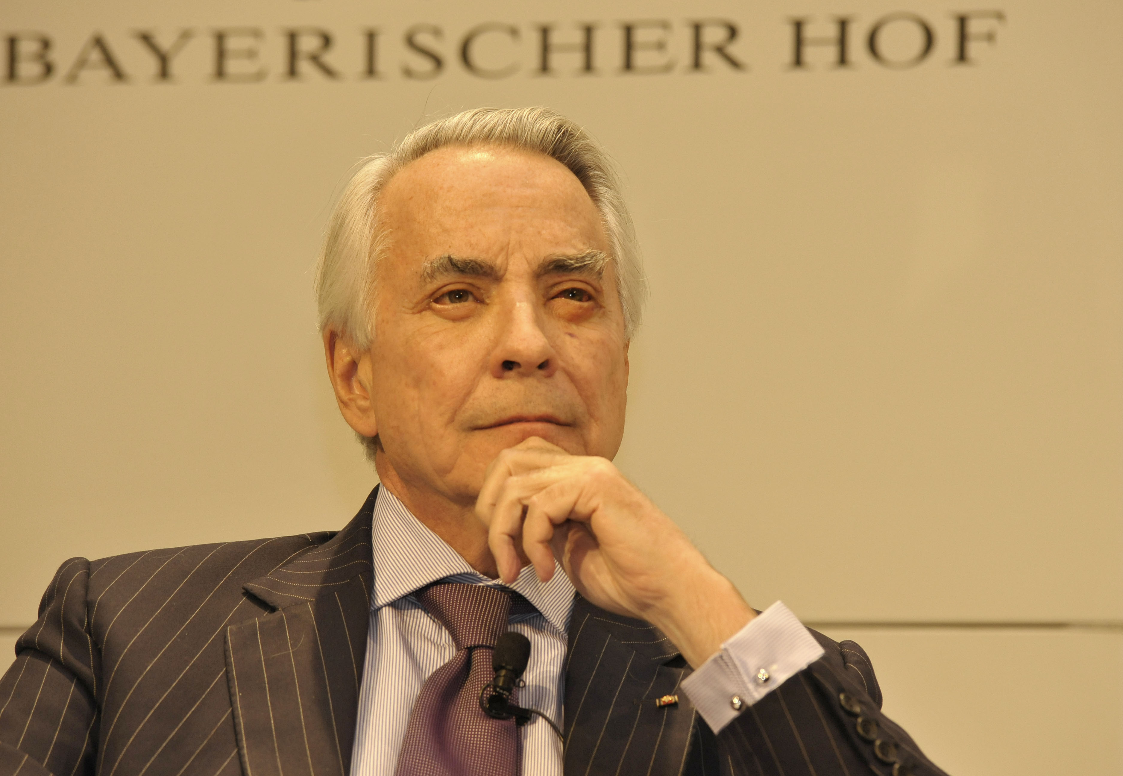 48th Munich Security Conference 2012: Richard Burt, Mc Larty Associates, Washington.